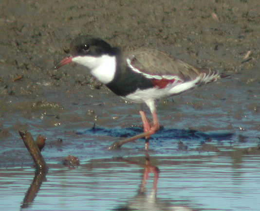 Red-kneed Dotterel (Erythrogonys cinctus) Samsonvale Cemetery, SE Queensland, Australia